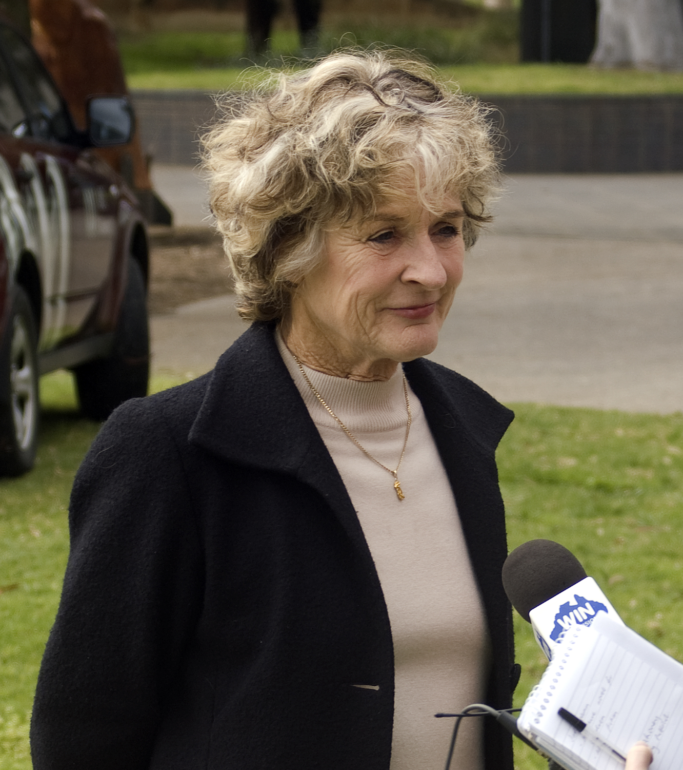 Australian author and actress, Judy Nunn.